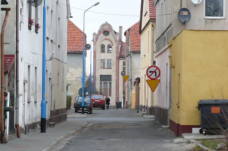 Old Town in Scinawa - Lower Silesia.